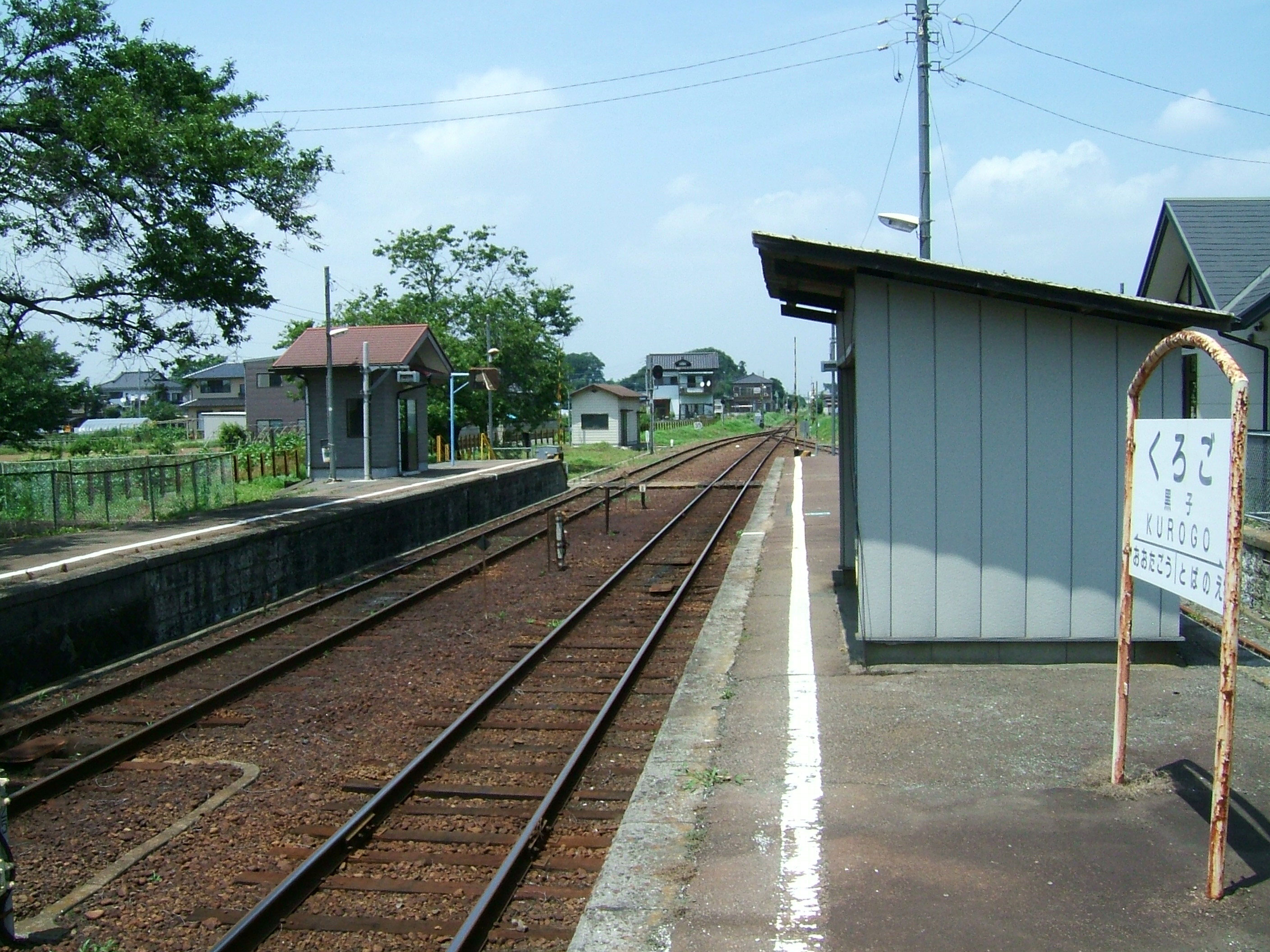 Kurogo Station platform (Kanto Railway Jōsō Line)